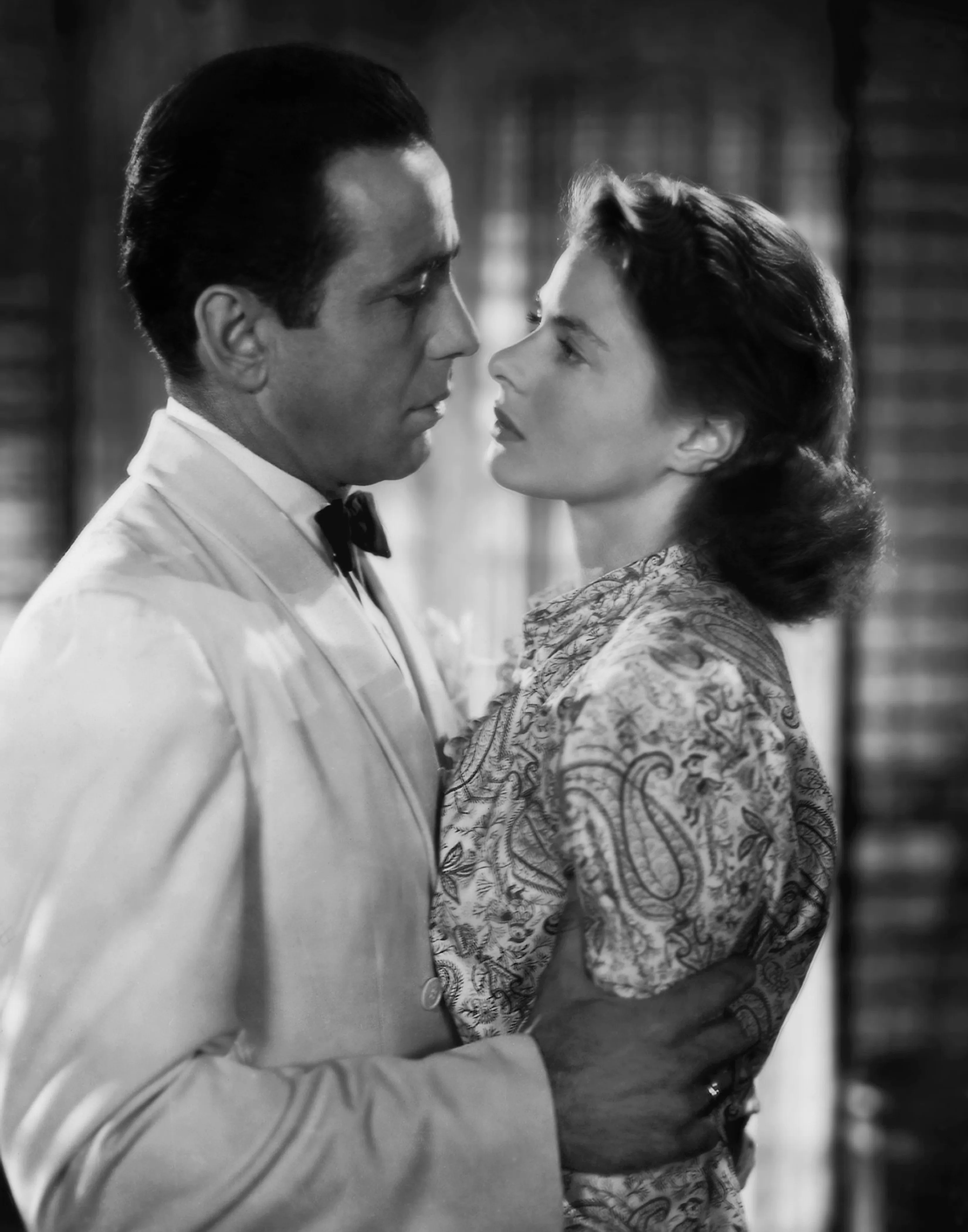 Humphrey Bogart & Ingrid Bergman in American romantic drama film Casablanca (1942). See also film still. No copyright notice.